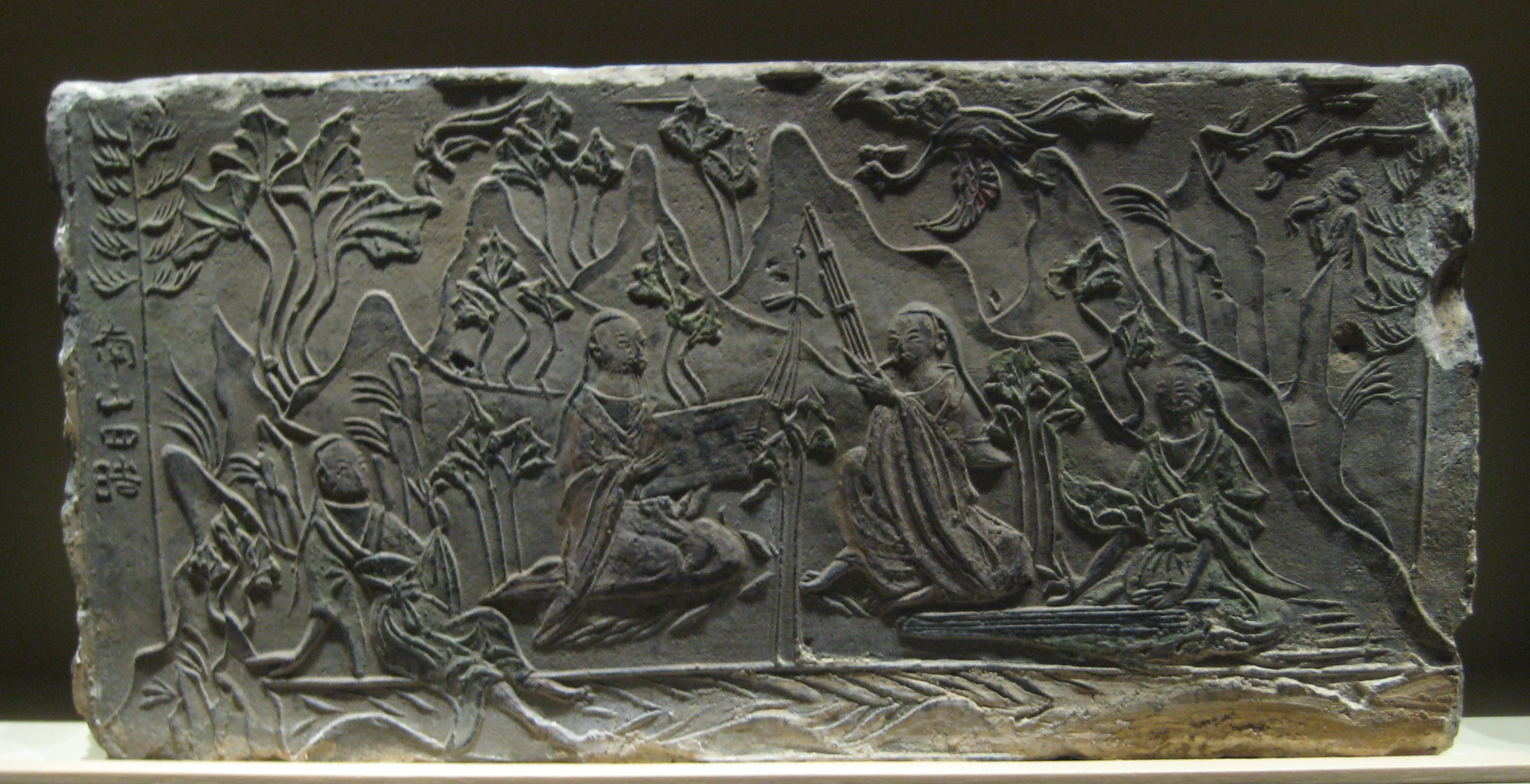 Brick relief depicting the "four white-haired scholars of the Southern Mountain" (南山四皓), from the Southern Dynasties. Unearthed at Xuezhuang, Dengxian, Henan Province, 1958.